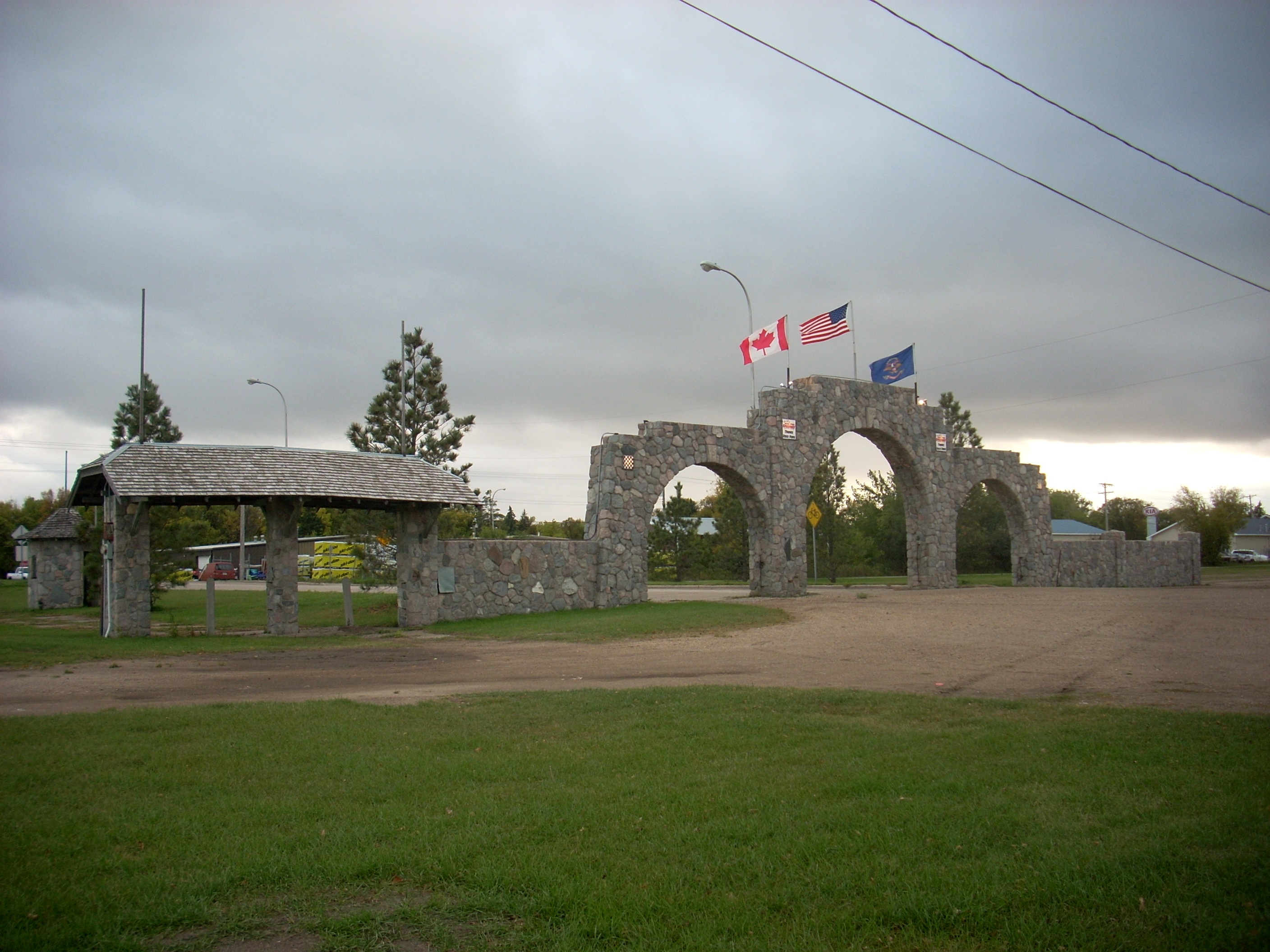 Grand Forks County Fairgrounds Structures Grand Forks, North Dakota. Built by the WPA. Added to National Register of Historic Places on April 21, 2009.